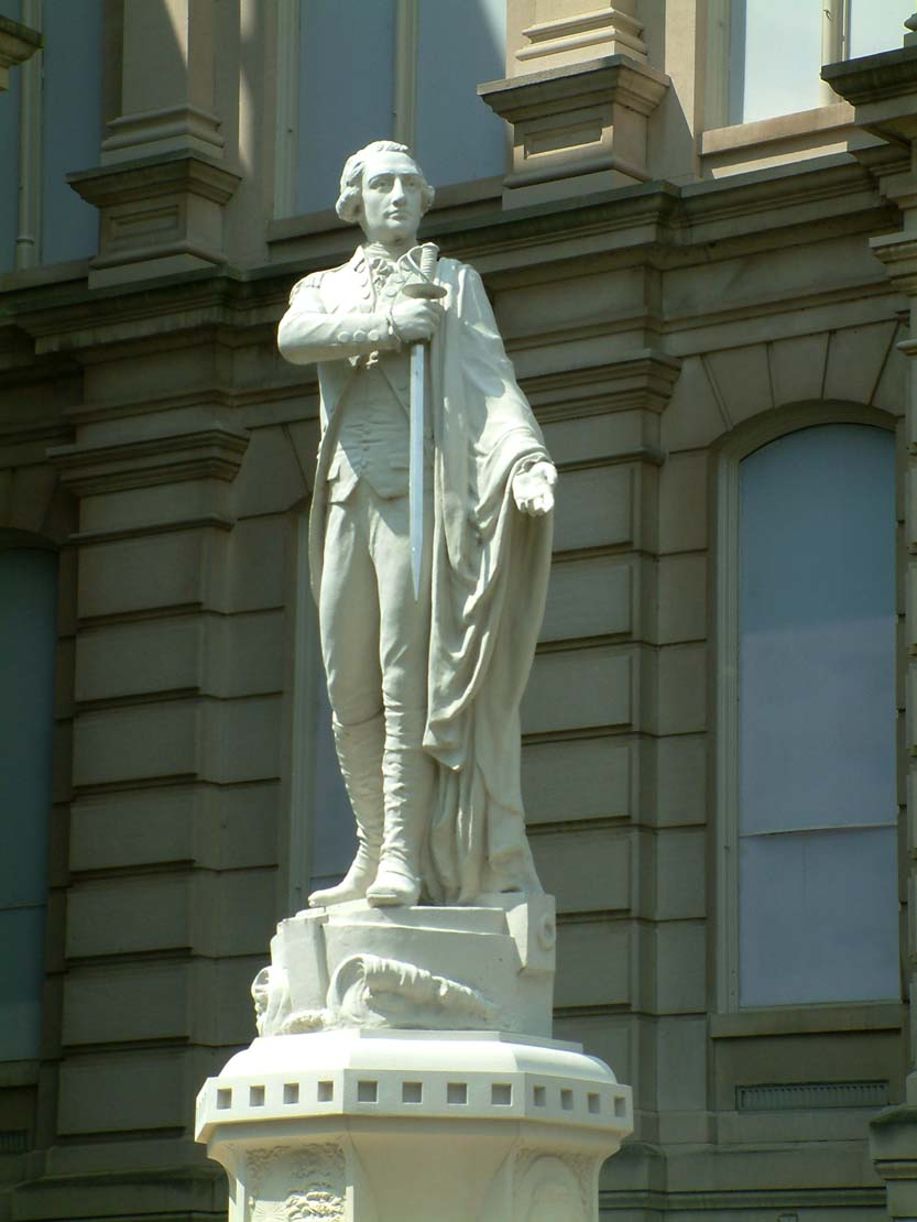 my photo of Lorado Taft's LaFayette Fountain